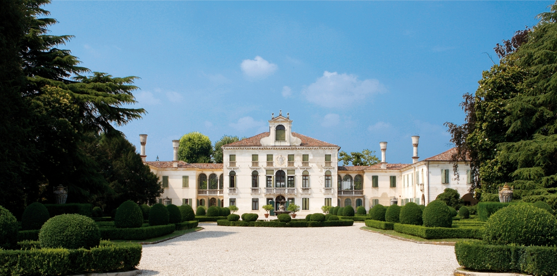 Villa Tiepolo Passi, Veneto Villa XVII century located in Carbonera (Treviso)